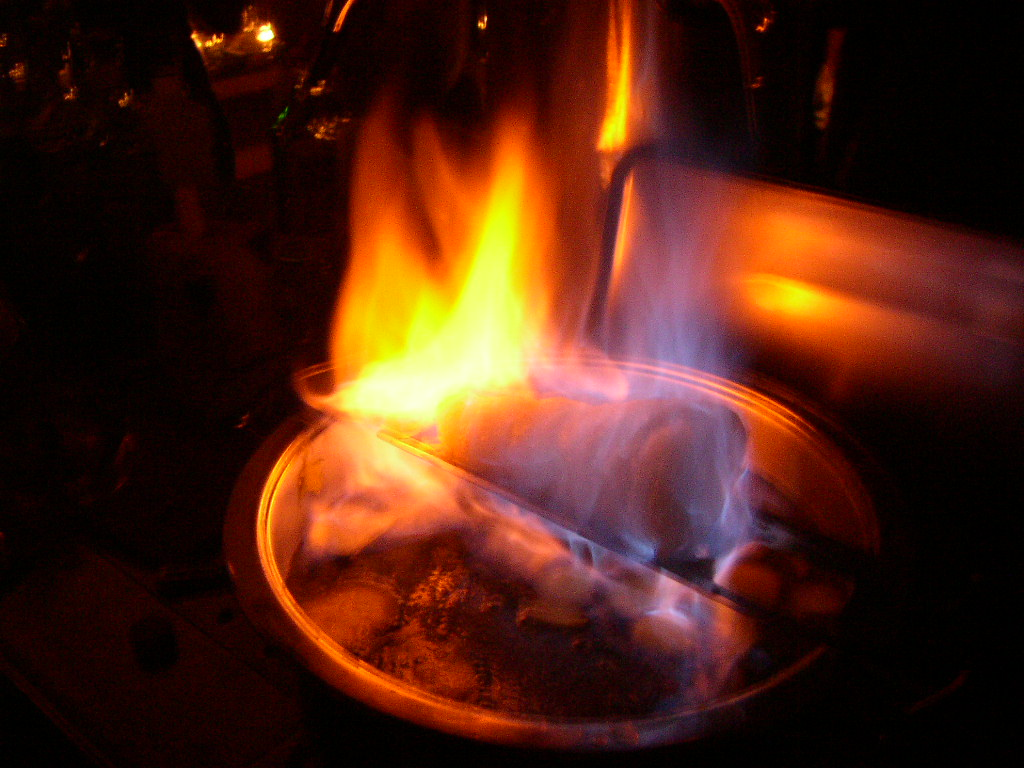 Feuerzangenbowle (burnt punch)